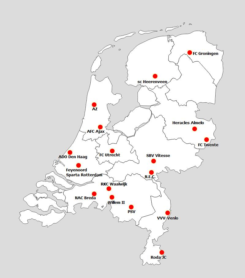 Eredivisie 2009-2010 teams geographic distribution.